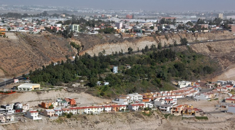 Ecoparque pertenece a El Colegio de la Frontera Norte y está situado en la ciudad de Tijuana, Baja California, México